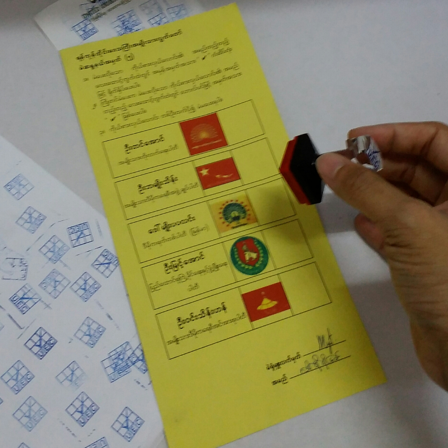 A ballot paper and rubber stamp used in 2015 Myanmar general election